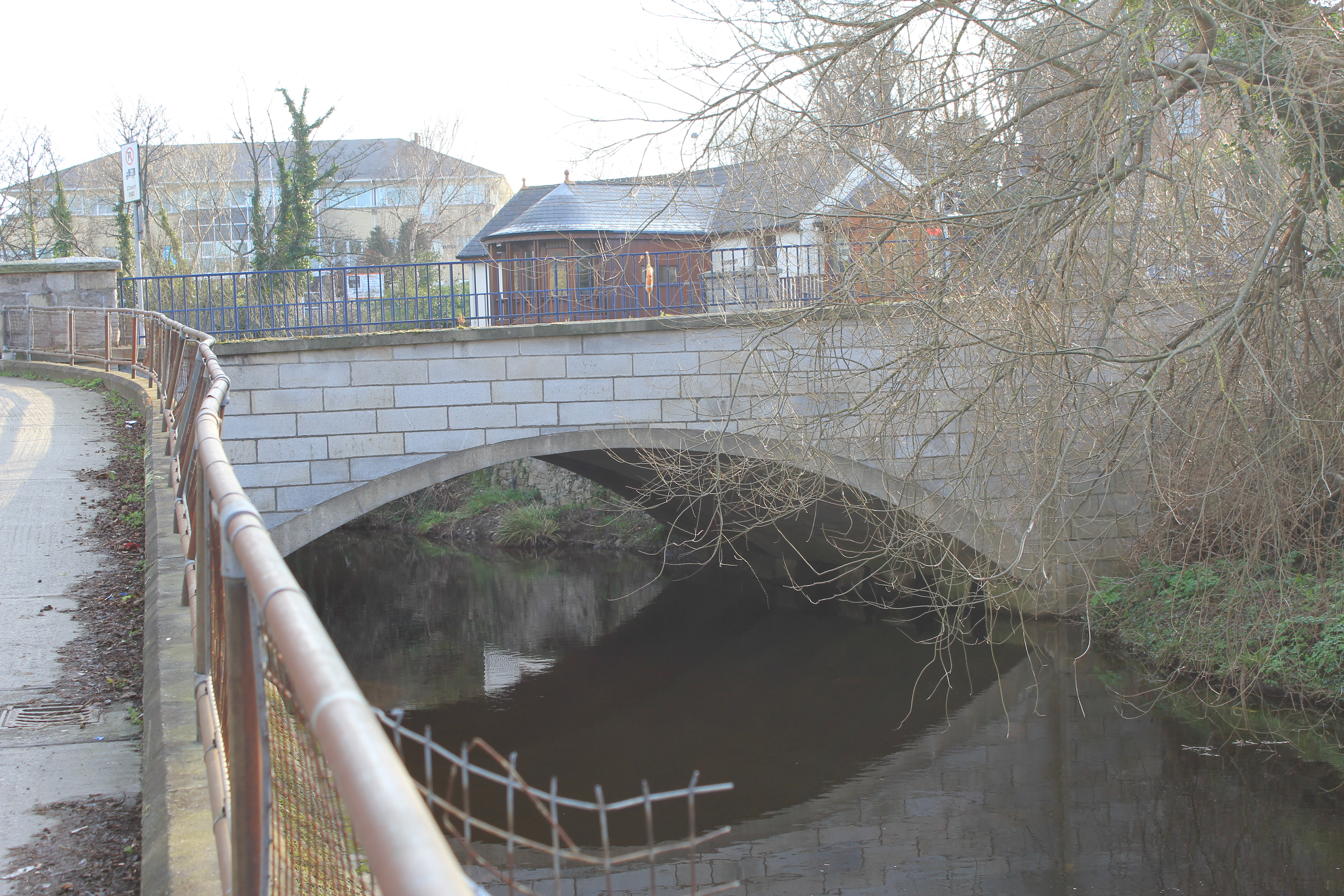 Clonskeagh Bridge, Dublin, accross the River Dodder.